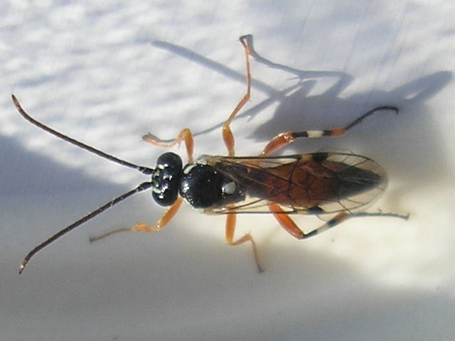 Diplazon laetatorius. This is an ichneumon wasp (Ichneumonidae). It emerged from the pupa of a hoverfly (Syrphidae) that it had consumed while growing. Validated as D. laetatorius by Kees Zwakhals on nederlandsesoorten.nl - Thanks! Location: Hengelo (Overijssel), Netherlands Keywords: Pupa, Pupae, Syrphidae, Flowerfly, Flower-fly, Ichneumonidae, parasite